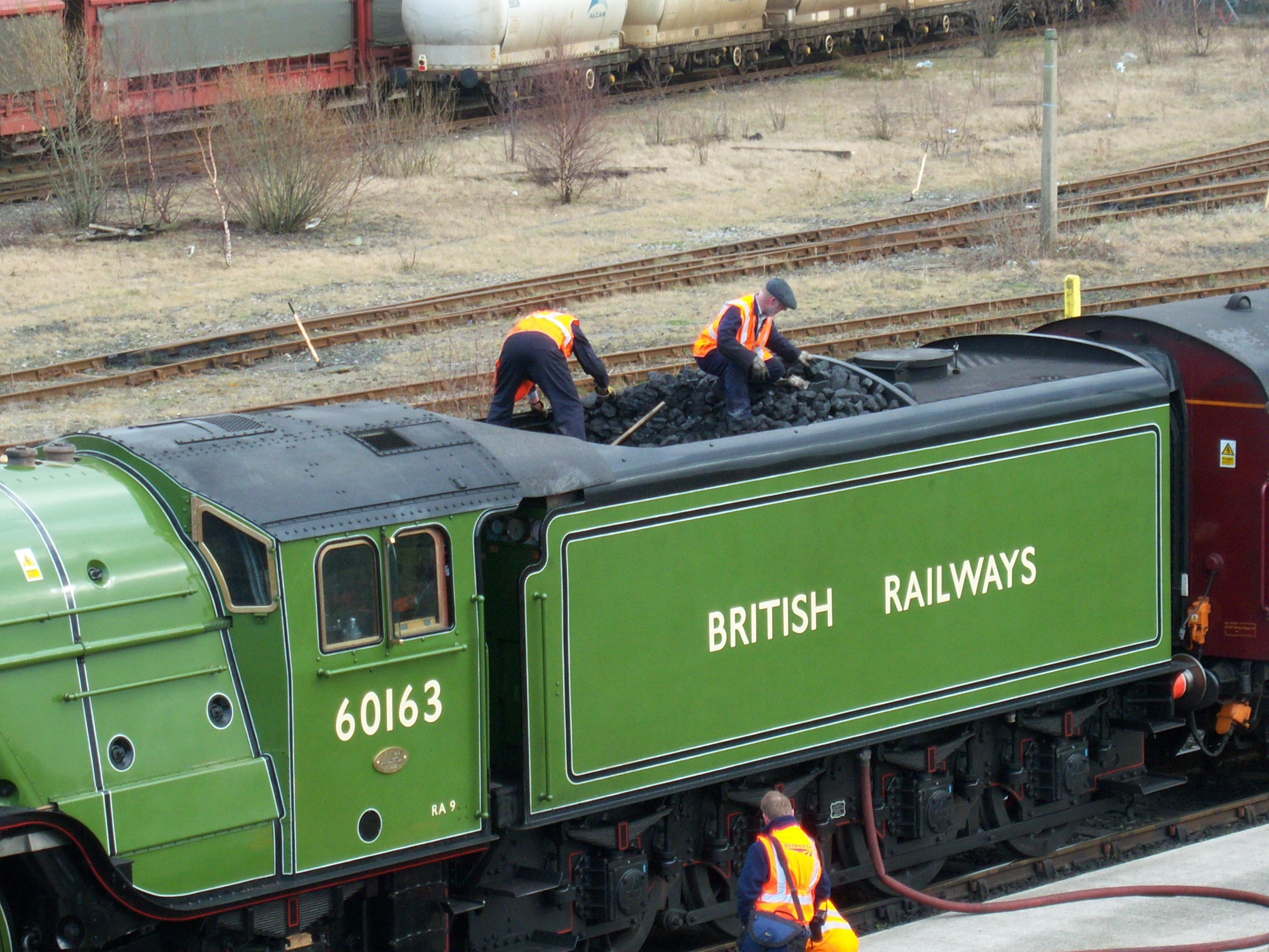 Brand new steam locomotive 60163 Tornado is serviced in Tyne Yard between trips on the Tyne Tornado rail tour. Crew members shift the coal in the tender as it is also re-filled with water from the attached hose